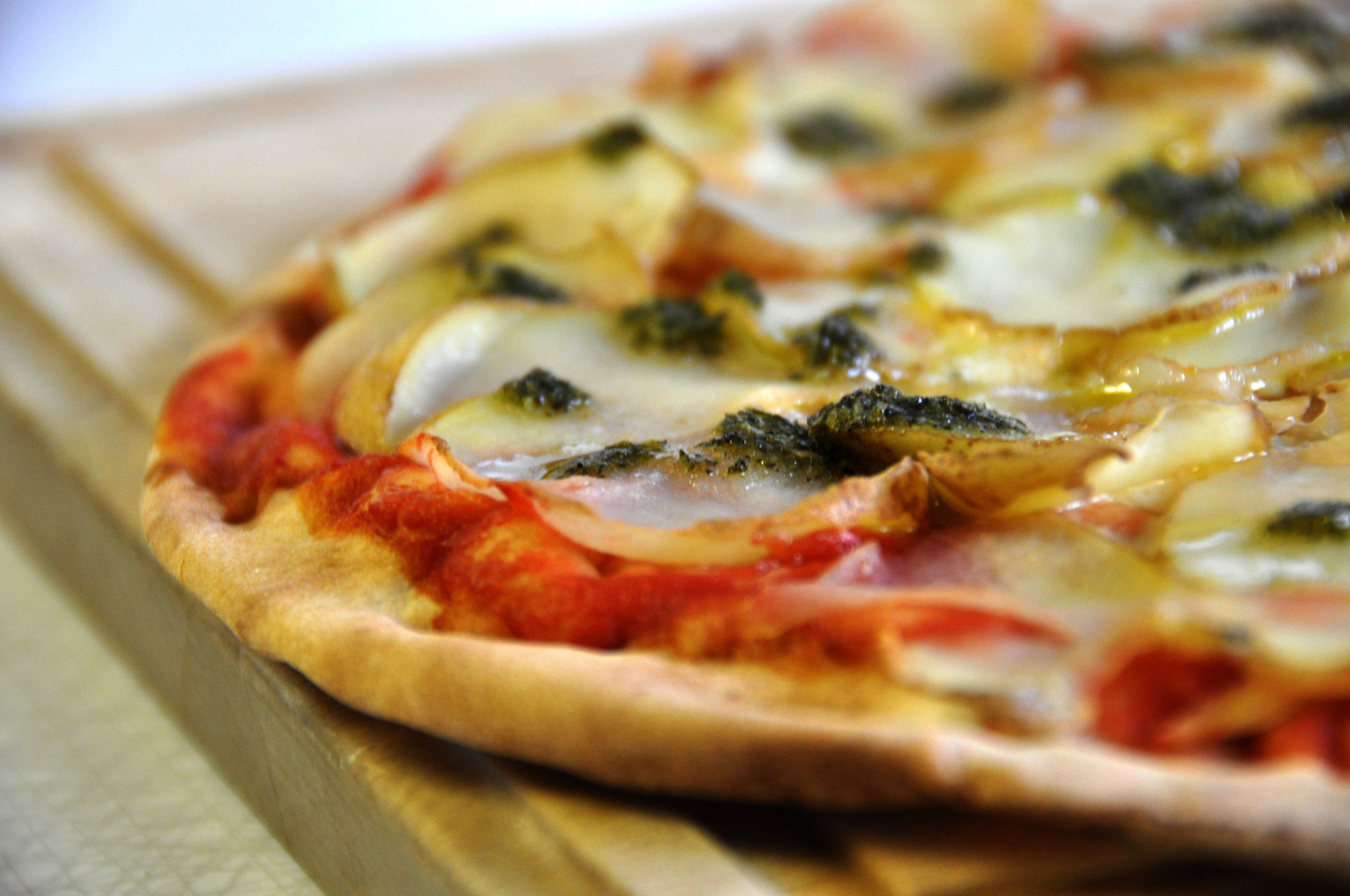 Potato pizza with rosemary pesto